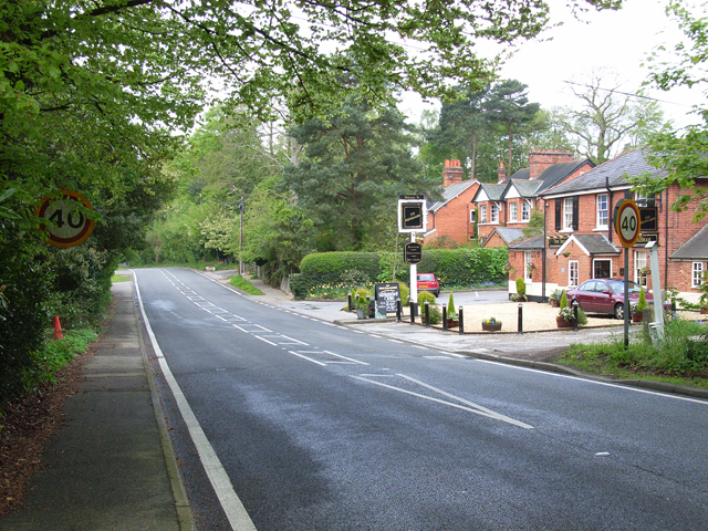 Chertsey Road, Windlesham. With the Brickmakers pub on the right.